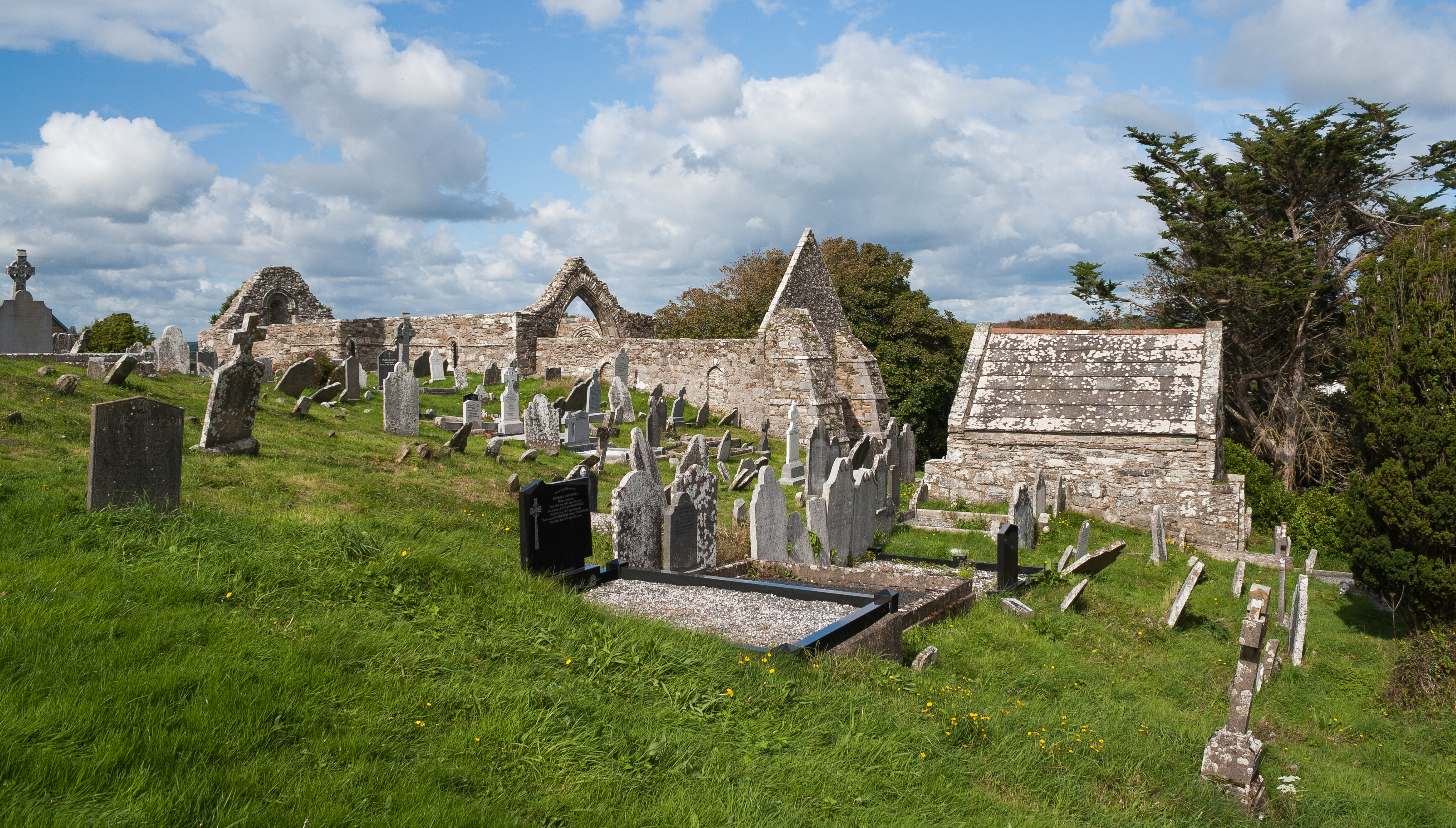 Ardmore Cathedral (left) and St. Declan's Oratory (right).